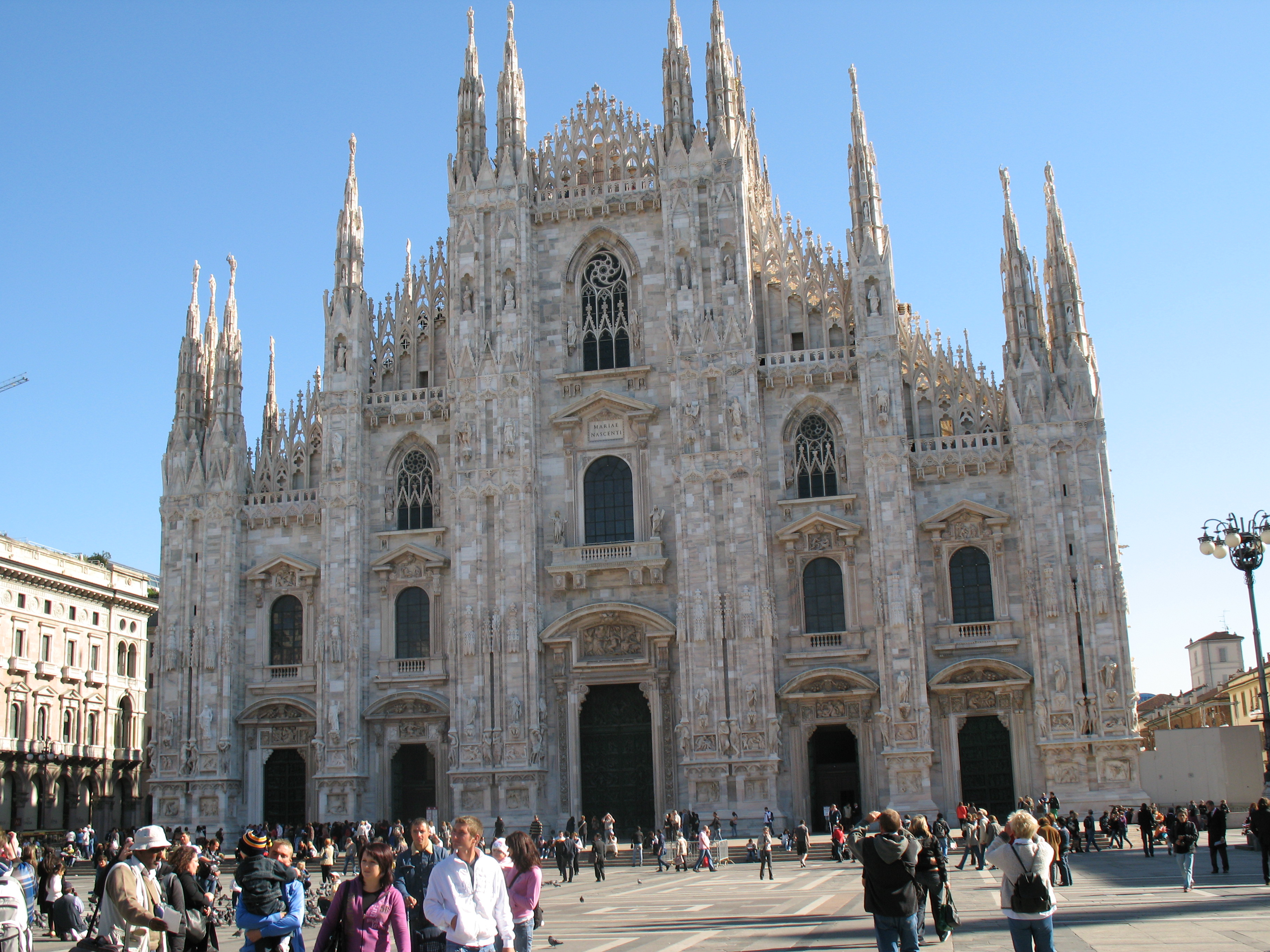 Milan Cathedral with (October 14, 2009)